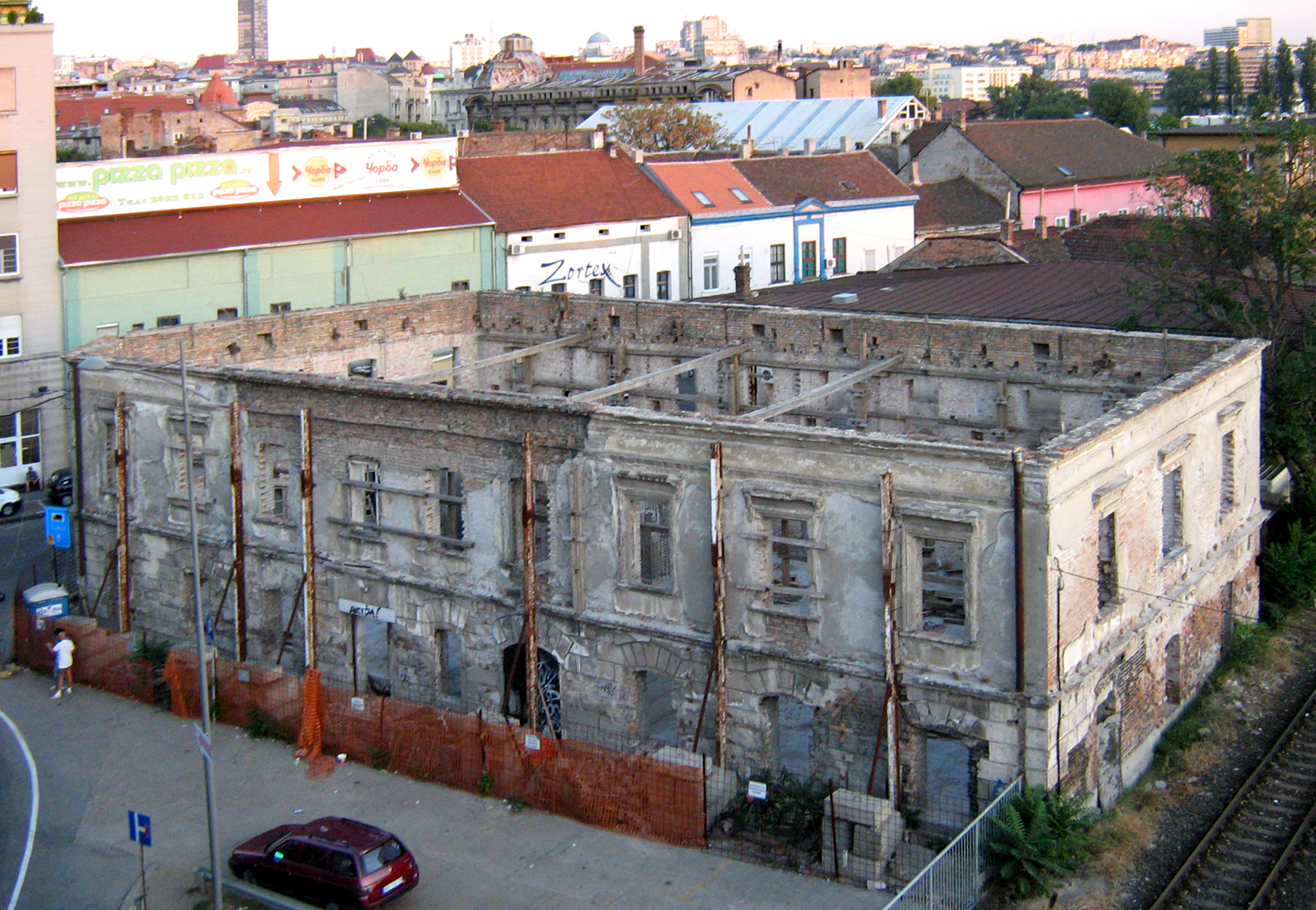 Spanish house in a Sava mala district, built around 1800, was, at the time it was built, one of the most representative buildings in this part of Belgrade.